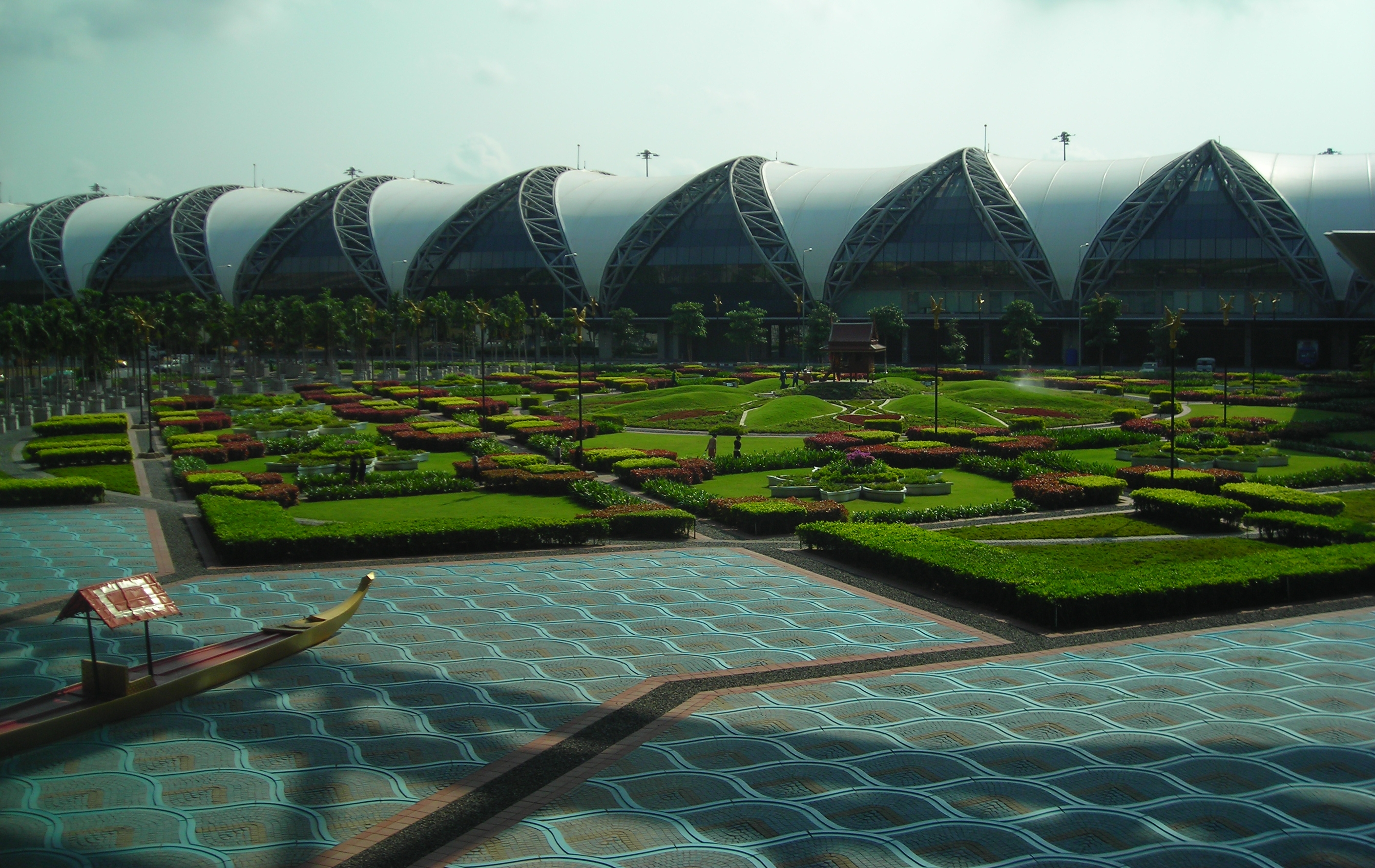 Park at Suvarnabhumi International Airport, Bangkok